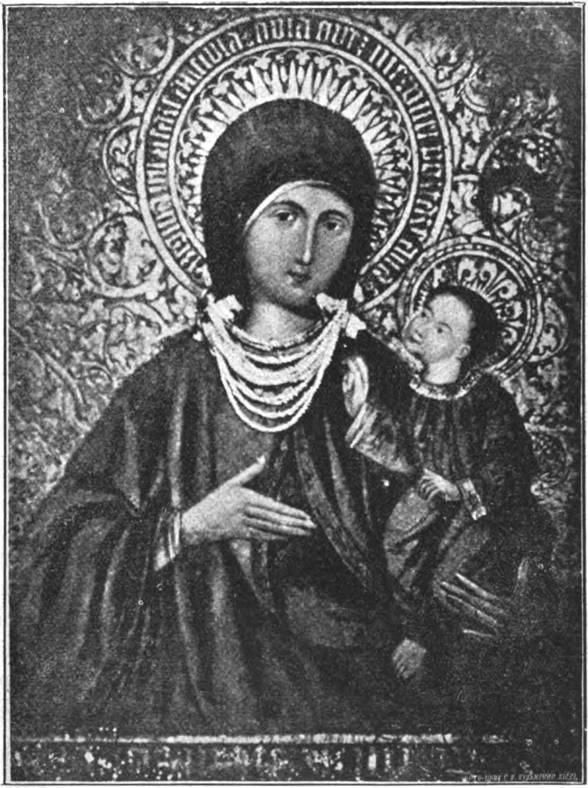 Armenian icon of the Mother of God from St. Nicholas Church in Kamianets-Podilskyi. The photo was published in 1895.